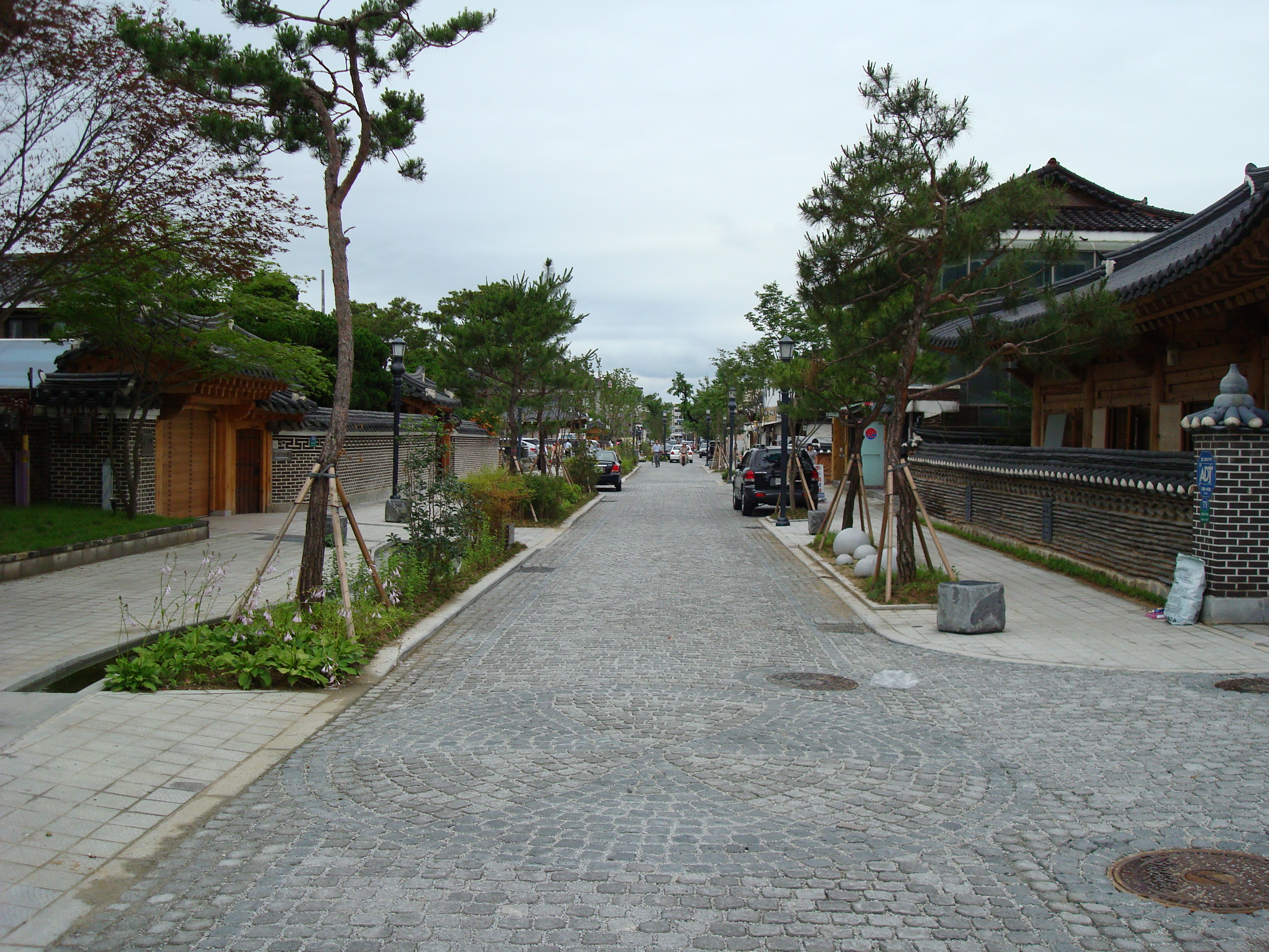 Ginko Street Of Jeonju Hanok Village in South Korea